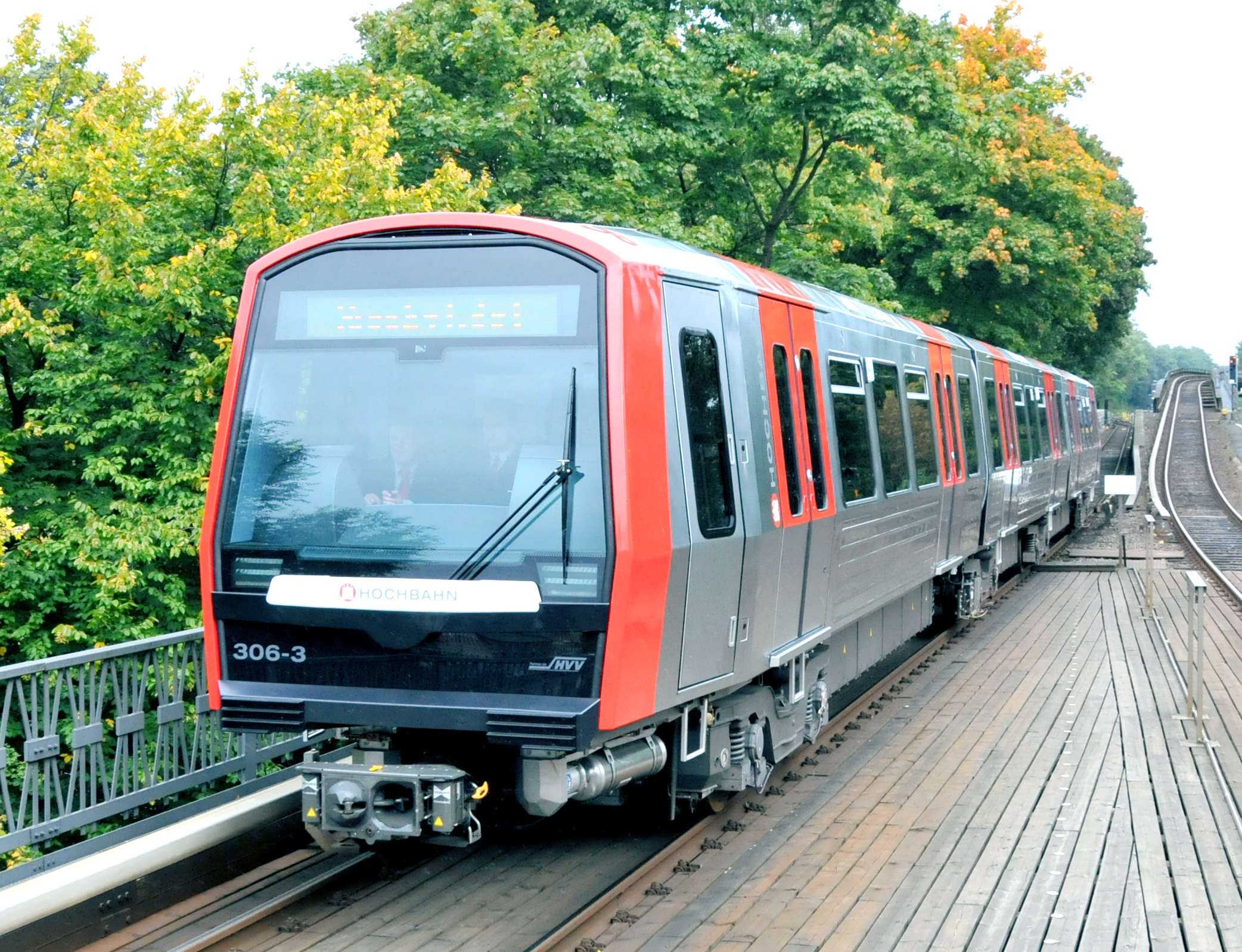 Subway train of type 5, entering service for the Hamburger Hochbahn (Hamburg underground) in late 2012